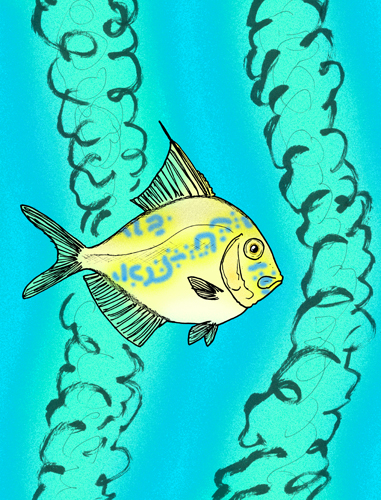 Reconstruction of the extinct acanthomorph fish, Pharmacichthys venenifer, from Cenomanian Lebanon